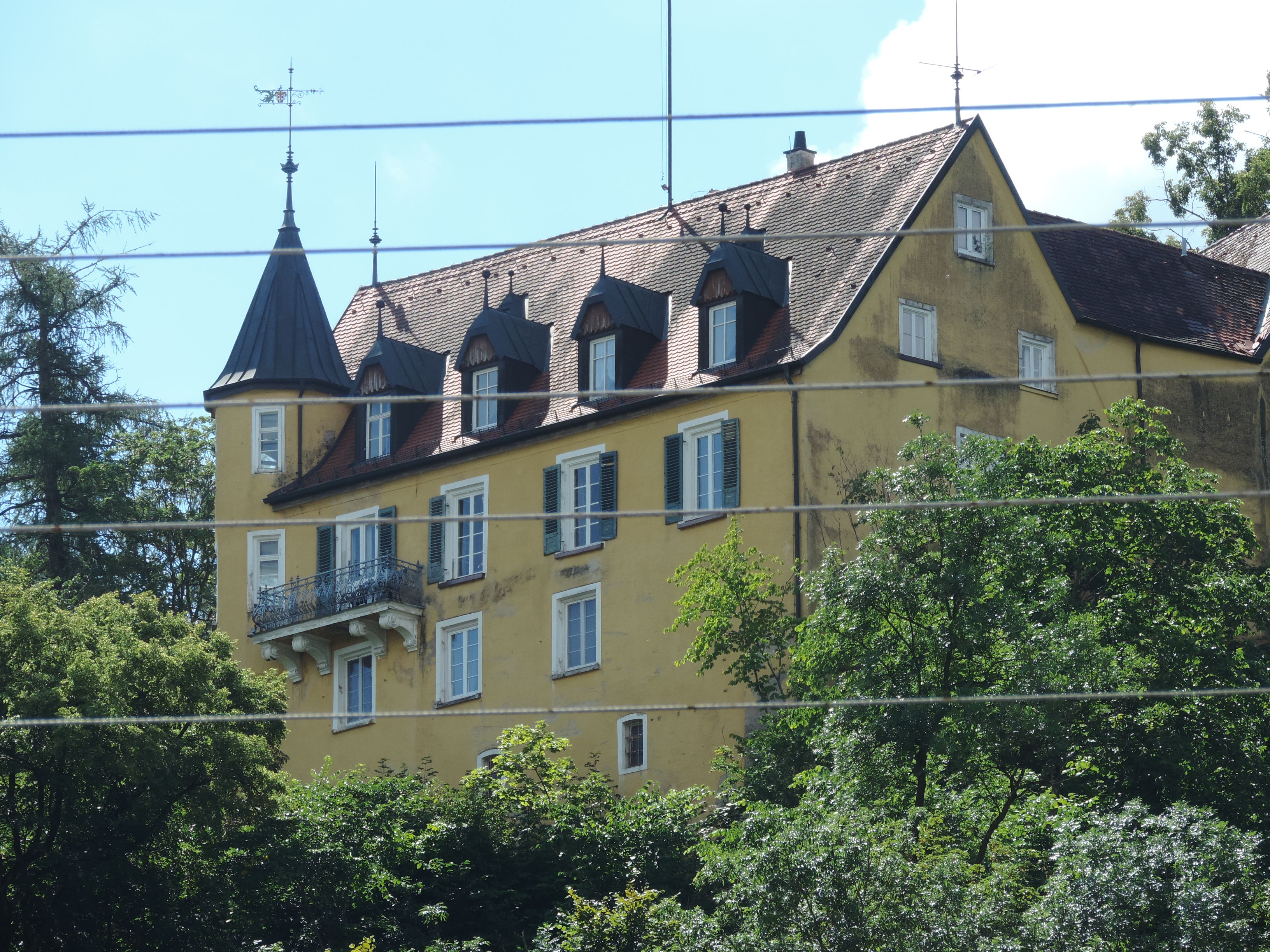 Schloss Burgberg - Maria Linden was born here